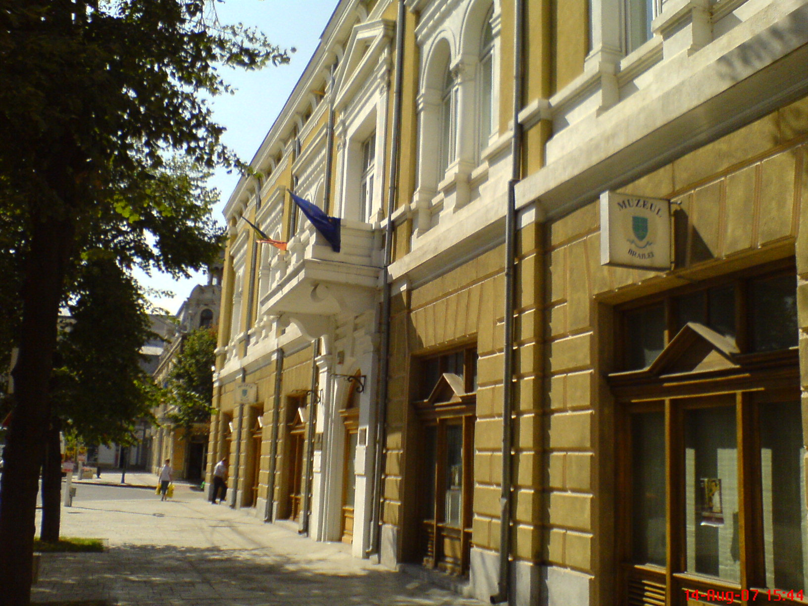 The Braila Museum - Former Grand French Hotel